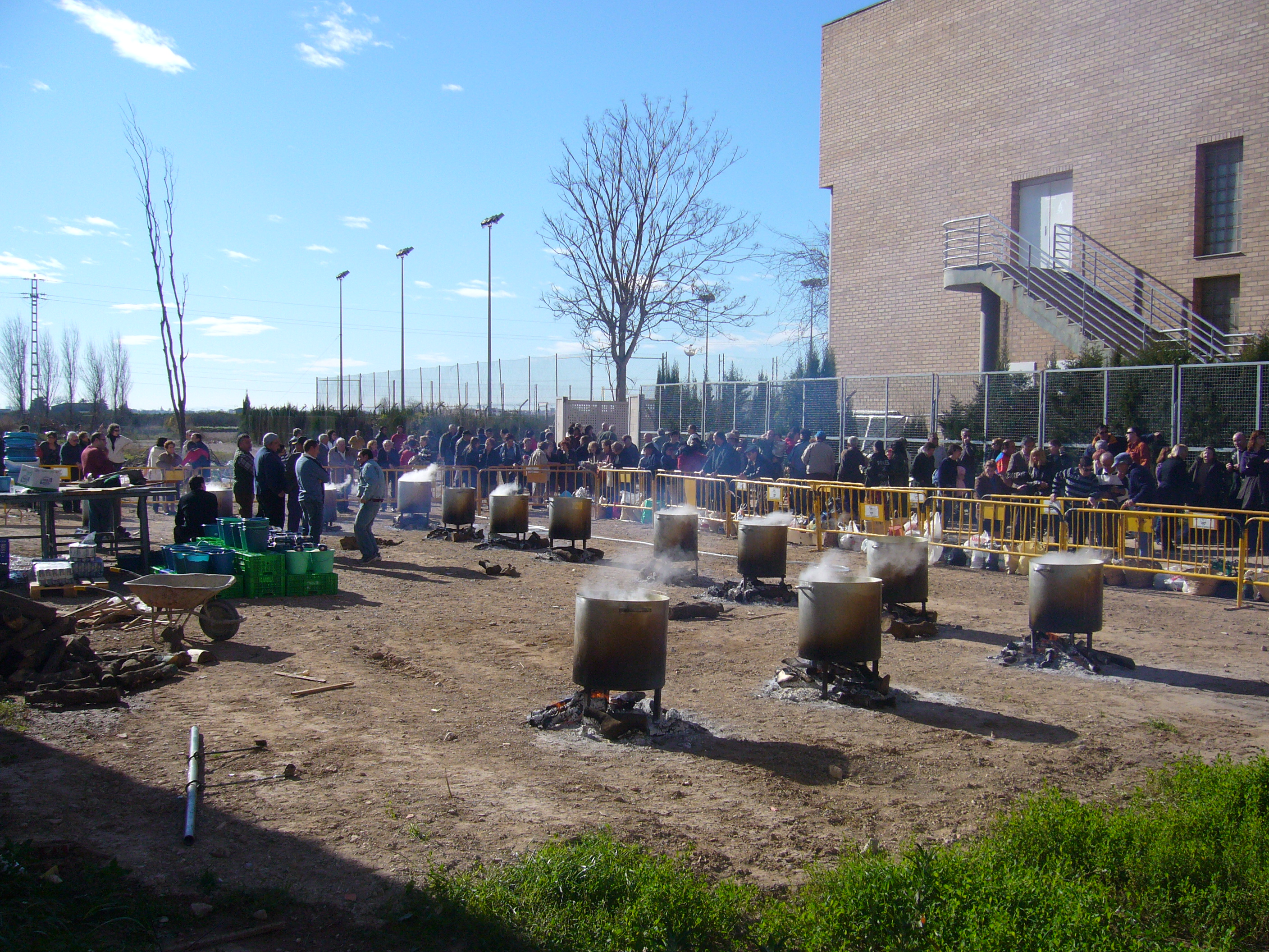 Cooking caldera